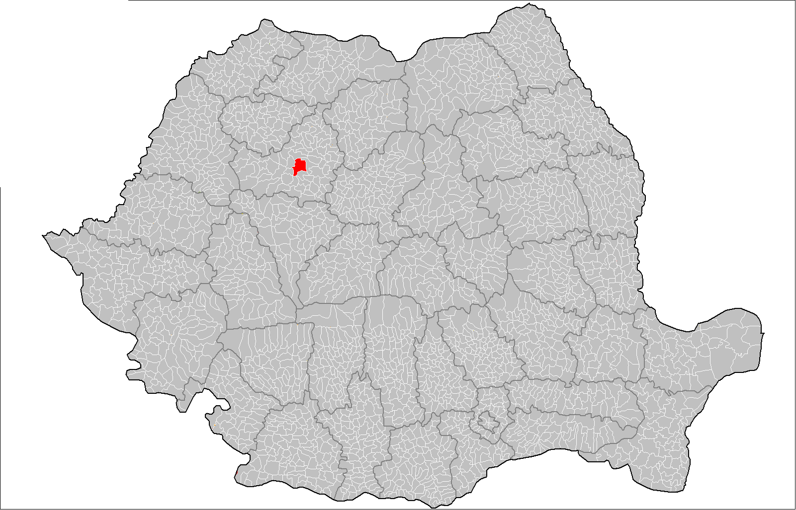 Location of Cluj-Napoca in Romania.